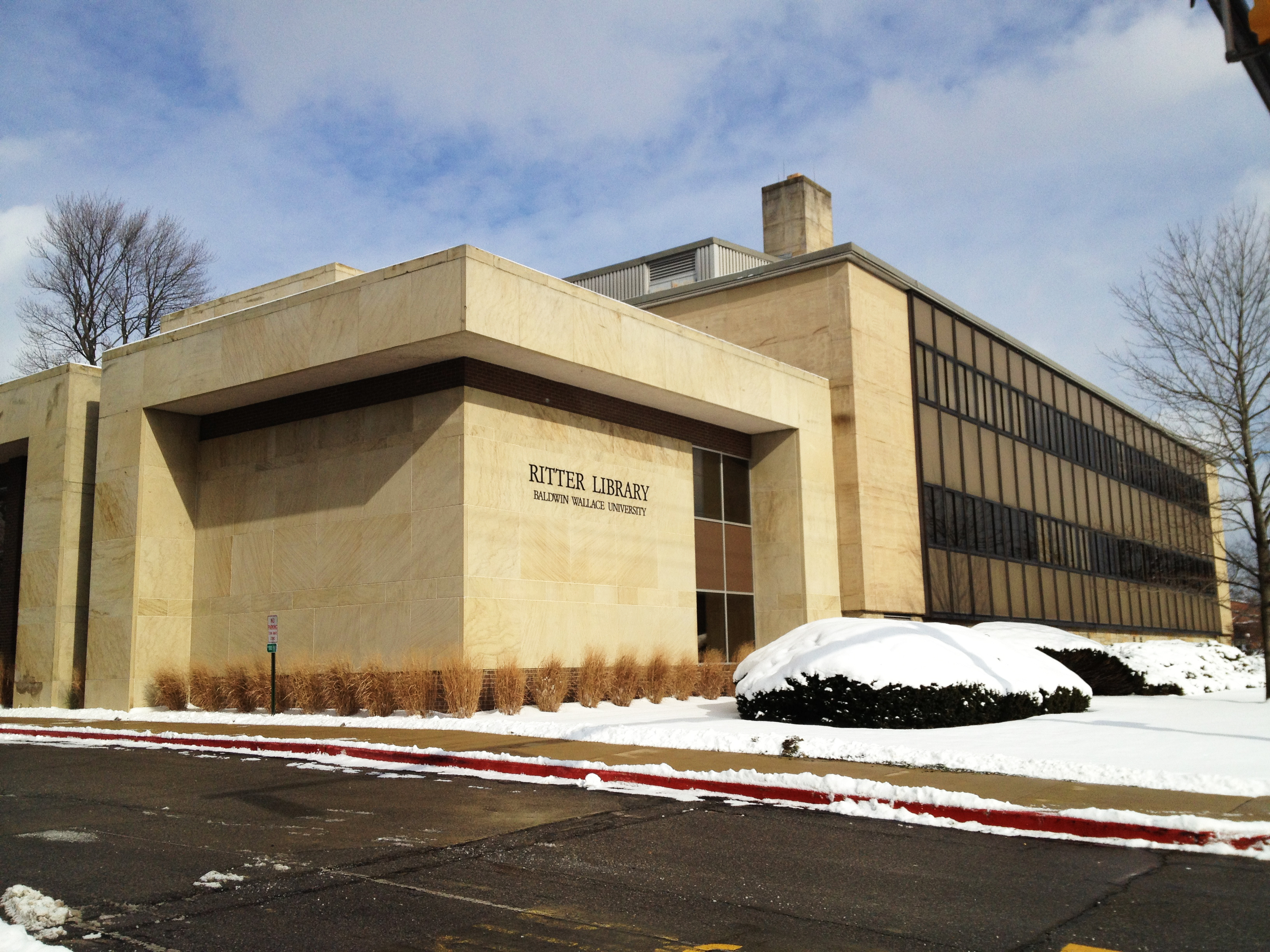 Ritter Library on Baldwin Wallace University North Campus